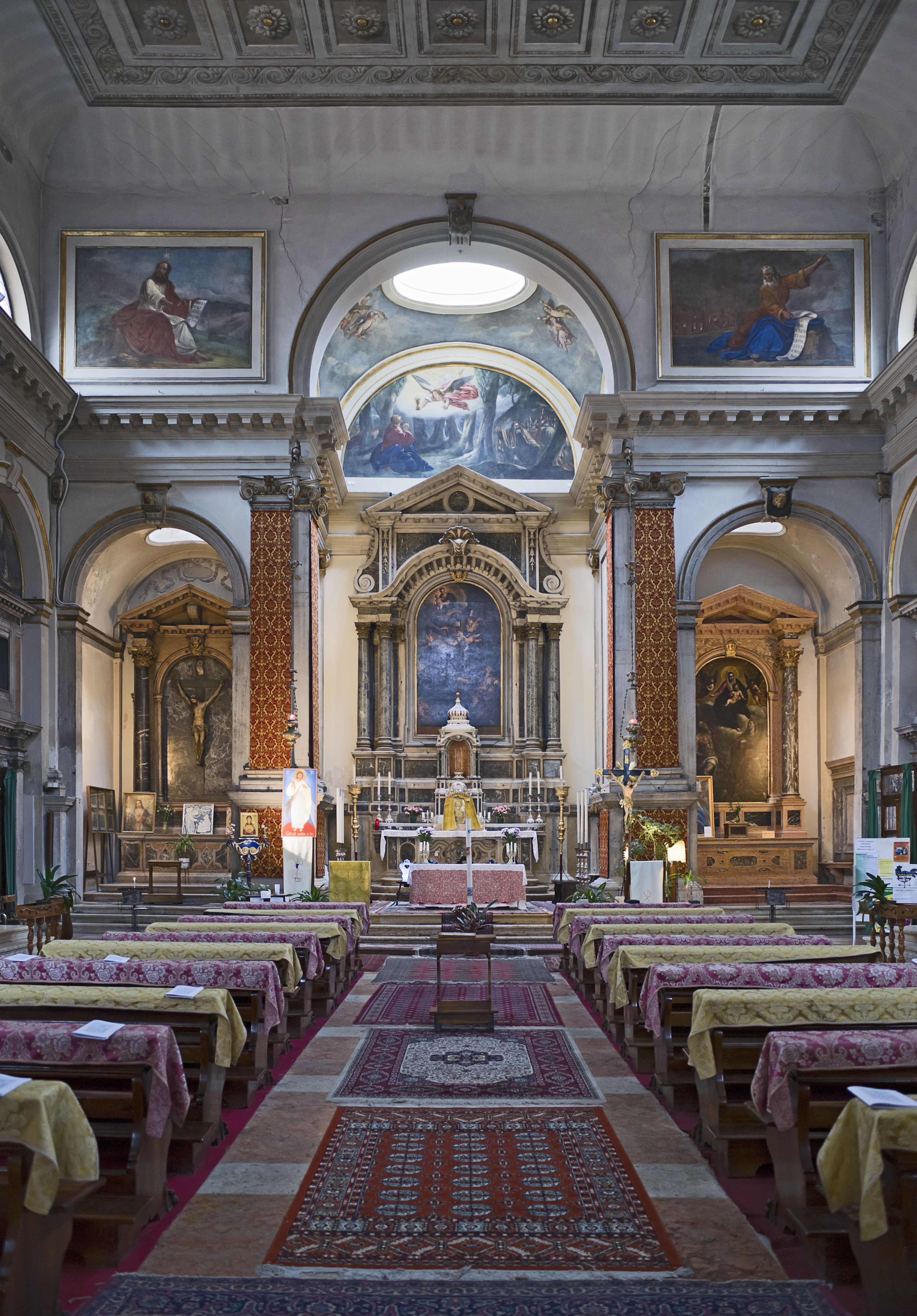 Church of San Luca Evangelista in Venice. Interio.